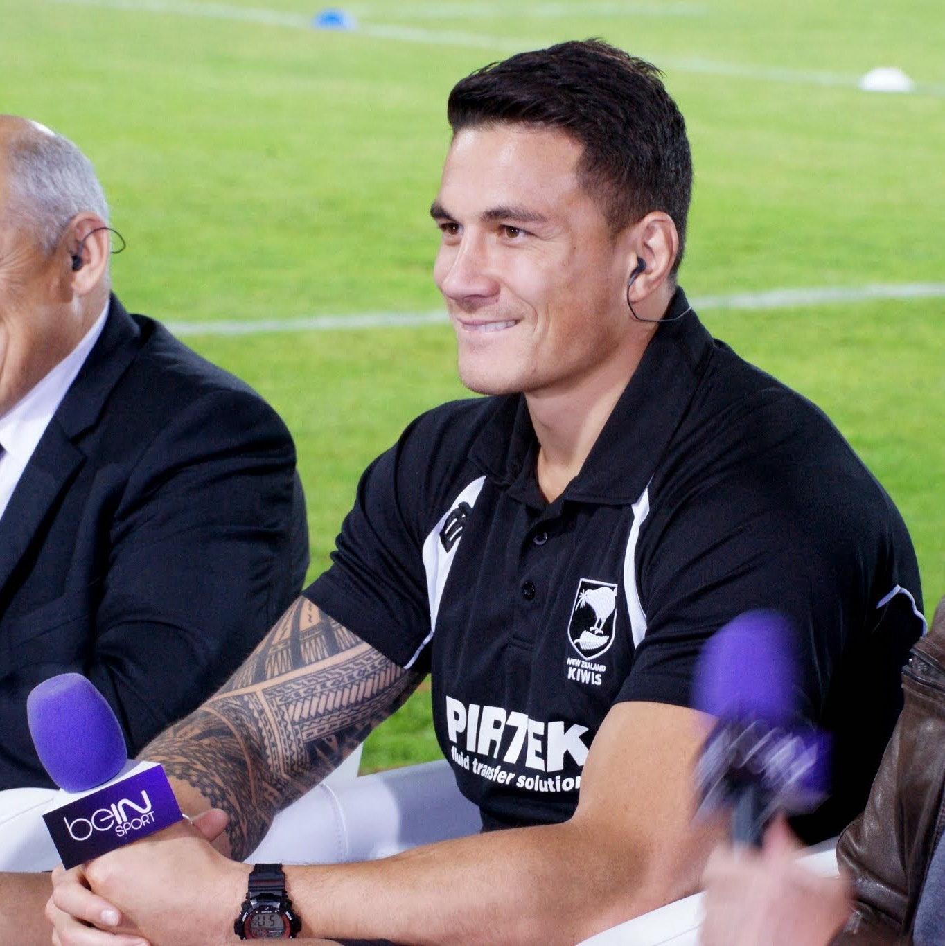 New Zealand rugby (both league and union) player Sonny Bill Williams